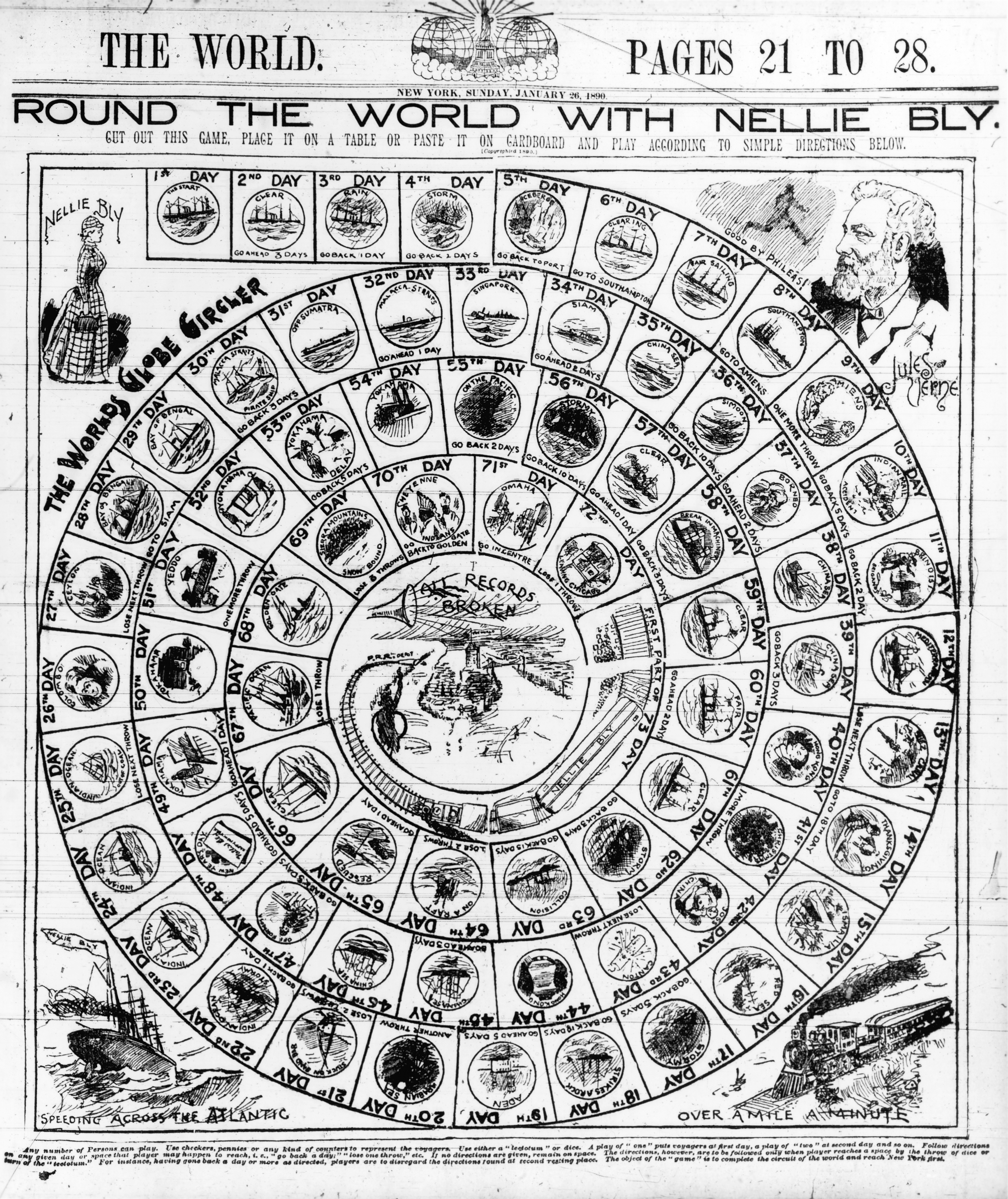 "Round the world with Nellie Bly. The World's Globe Circler." Board game about journalist Nellie Bly's trip around the world in 1889-1890. Game shows squares for each of the 73 days of her journey arranged in a spiral, flanked with images of Nellie Bly, Jules Verne, a steam ship, and a train. Illustration in "The New York World", New York, N.Y., 26 January 1890, p. 21.